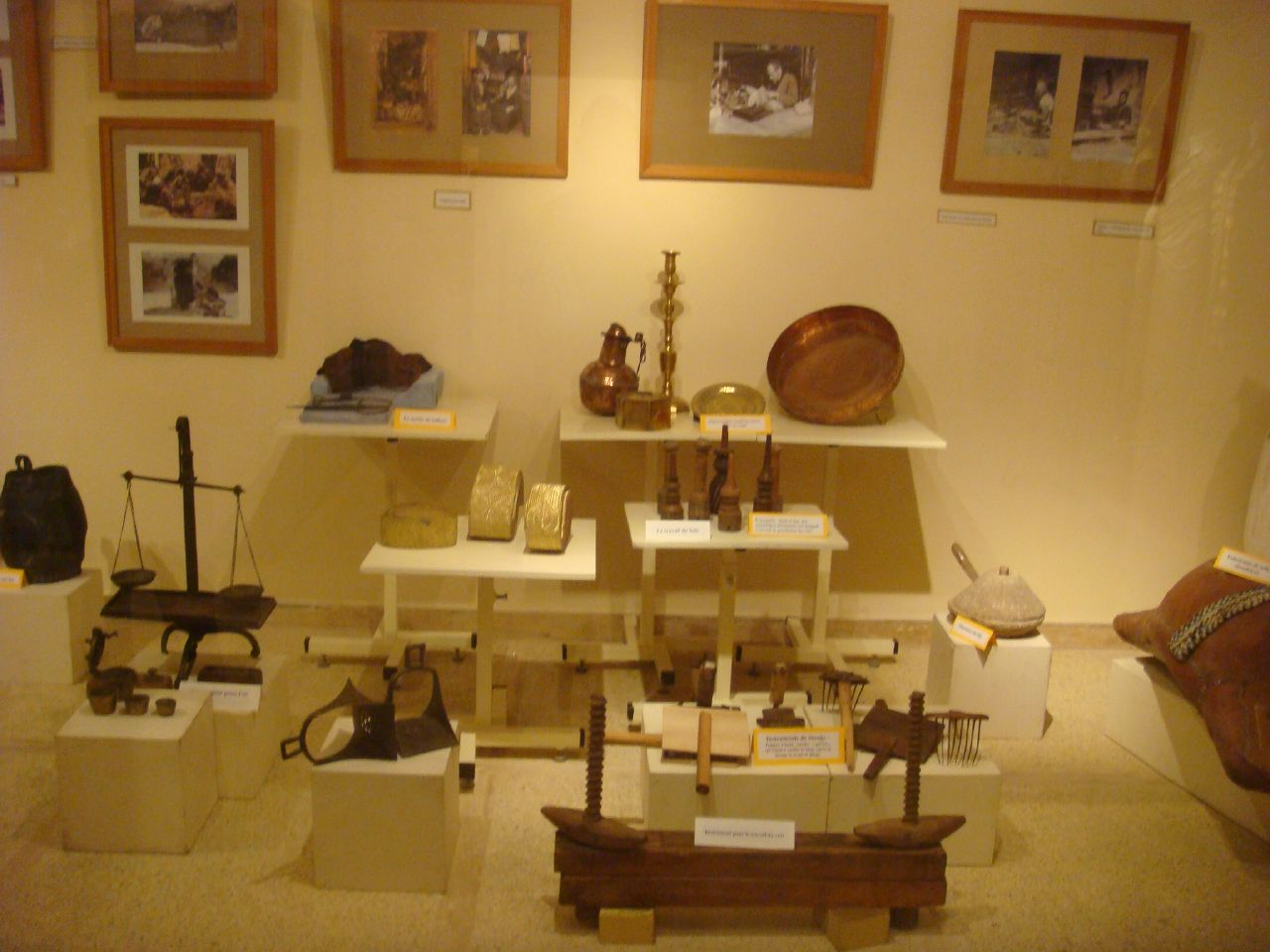 Artifacts on display at the Jewish Museum of Casablanca, Morocco.